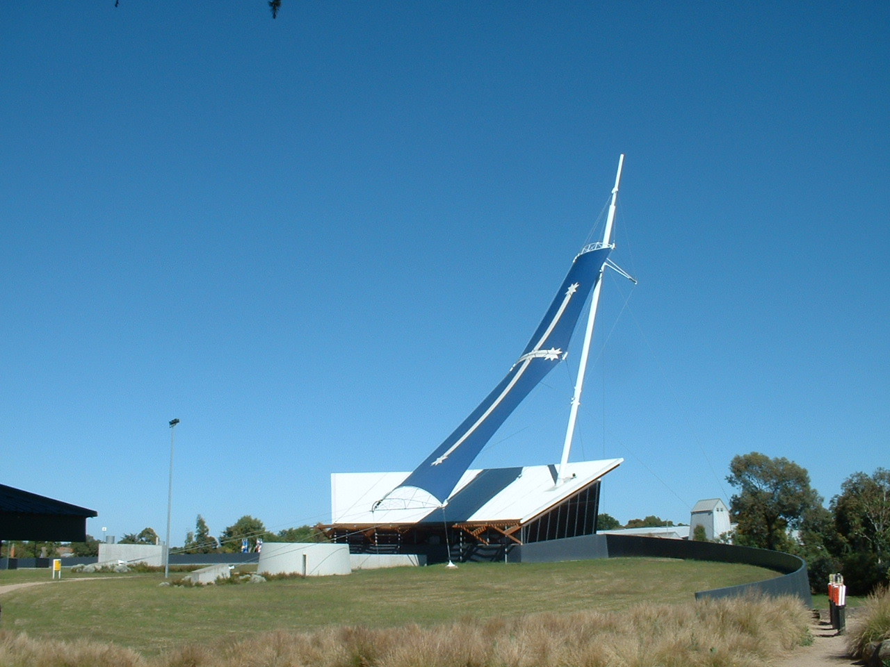 A photo of the Eureka Centre, Ballarat, Victoria, Australia. It is built near the site of the Eureka Stockade, where the miners rebelled against the government on December 3, 1854. The building is designed to look like a gold pan buried in the ground. Above the centre is a huge copy of the miners flag. Most of the building is underground and holds a display about the Eureka Stockade.